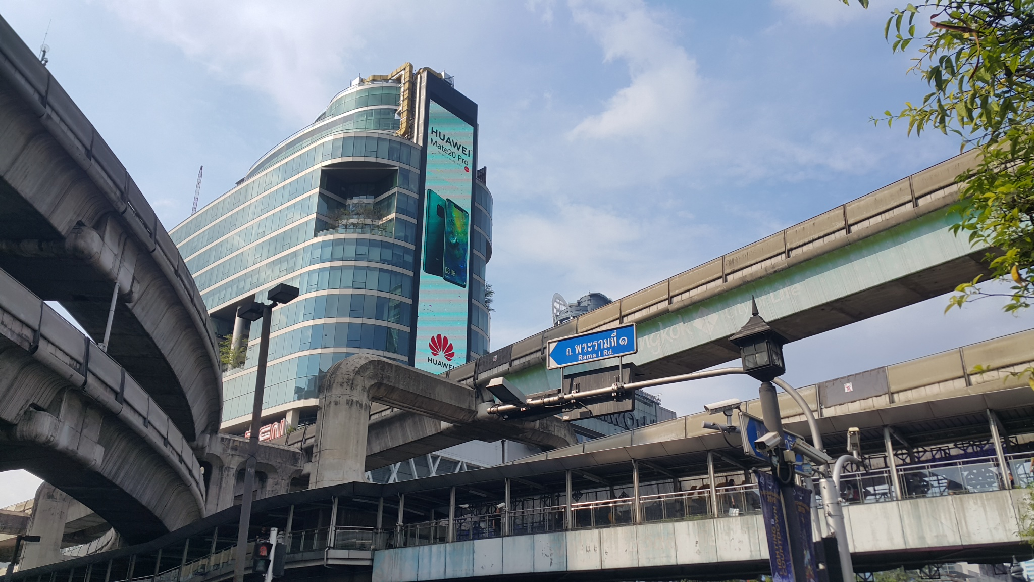 The road sign of Rama I Road in Bangkok with Central World as a background